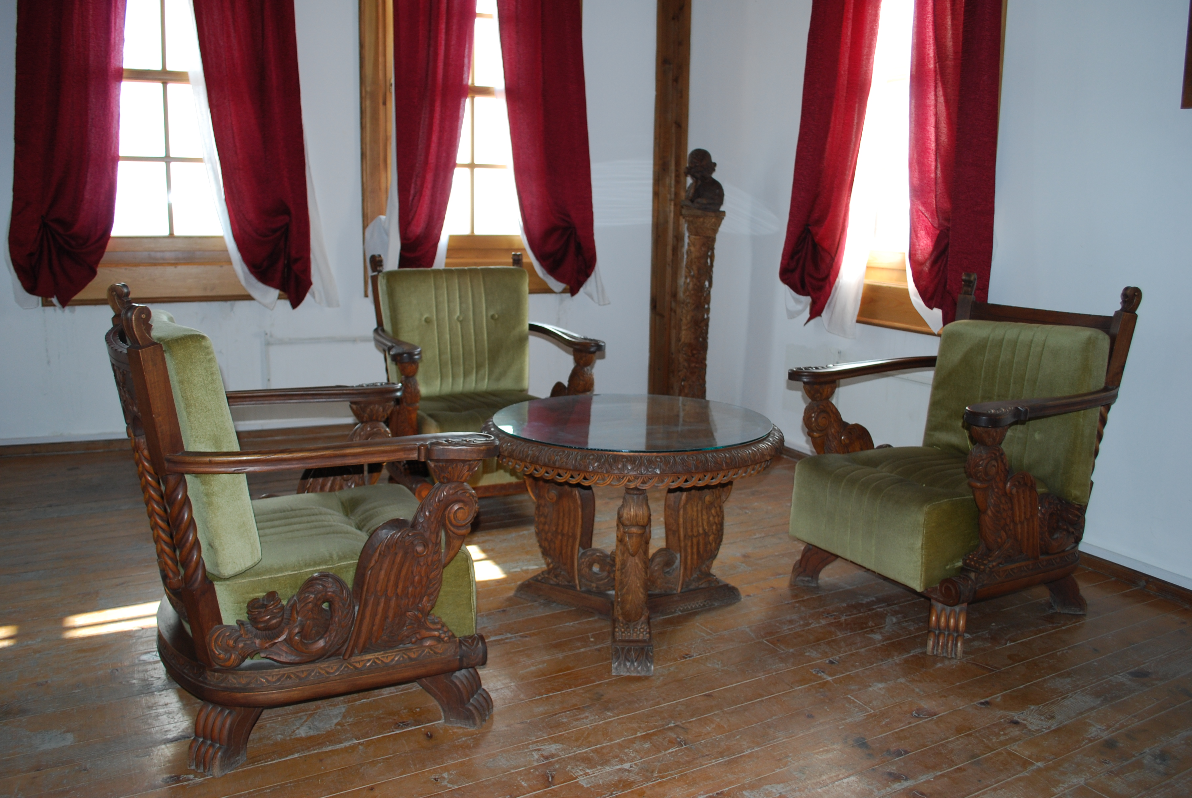 The Robevi house in Ohrid, one of the most famous architectural monuments in Macedonia. It was built in its current state in 1863 - 1864 by Todor Petkov from a village Gari near Debar. Today the house is a protected monument of culture under the "Institute for protection of cultural monuments in Ohrid". Currently, in houses is the "The Archeological museum of Ohrid". More...